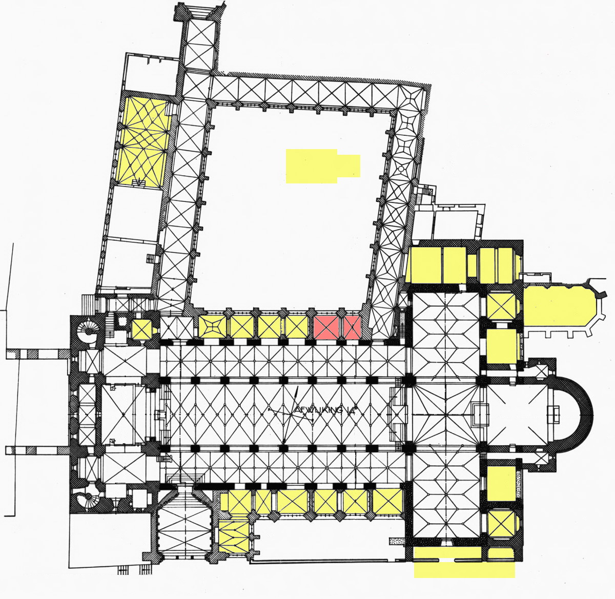 Locator map of chapels of the Basilica of Saint Servatius in Maastricht, the Netherlands. This map by an unknown author was first published in 1926 in Van Nispen tot Sevenaers De monumenten in de gemeente Maastricht, Deel 1, and donated to Wiki Commons by Rijksdienst voor het Cultureel Erfgoed on 7 January 2013. All colouring and other edits are by Kleon3. In yellow all 17 chapels of Sint-Servaasbasiliek in past and present. In red the chapel of Our Lady, Seat of Wisdom, the eastern most of the north aisle chapels.